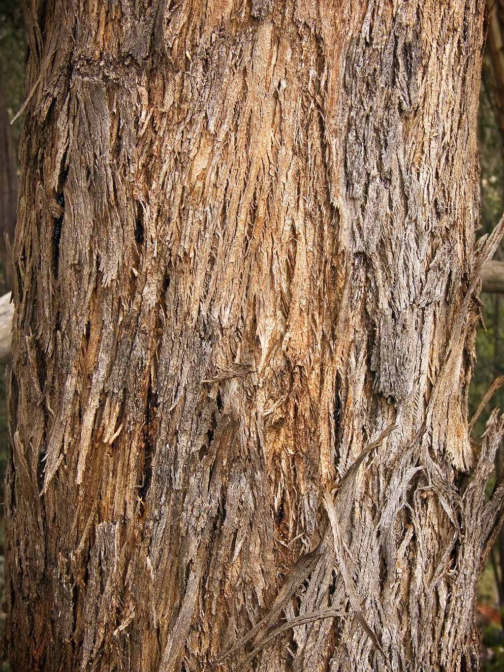 Eucalyptus melliodora, commonly known as Yellow Box, is a medium sized to occasionally tall eucalypt